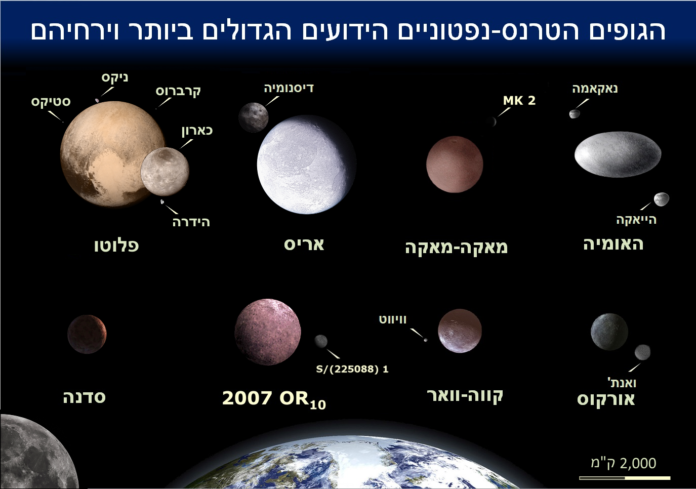 Comparison of the eight largest TNOs (hebrew).